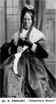 Publicity photograph of W.S. Penley in the original production of Charley's Aunt, taken during the run at the Royalty Theatre, between 21 December 1892 and 30 January 1893. Photographer: T C Turner and Co, Barnsbury Park, London.